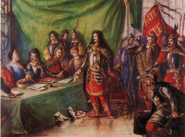 Rákóczy refuses the peace of Szatmár